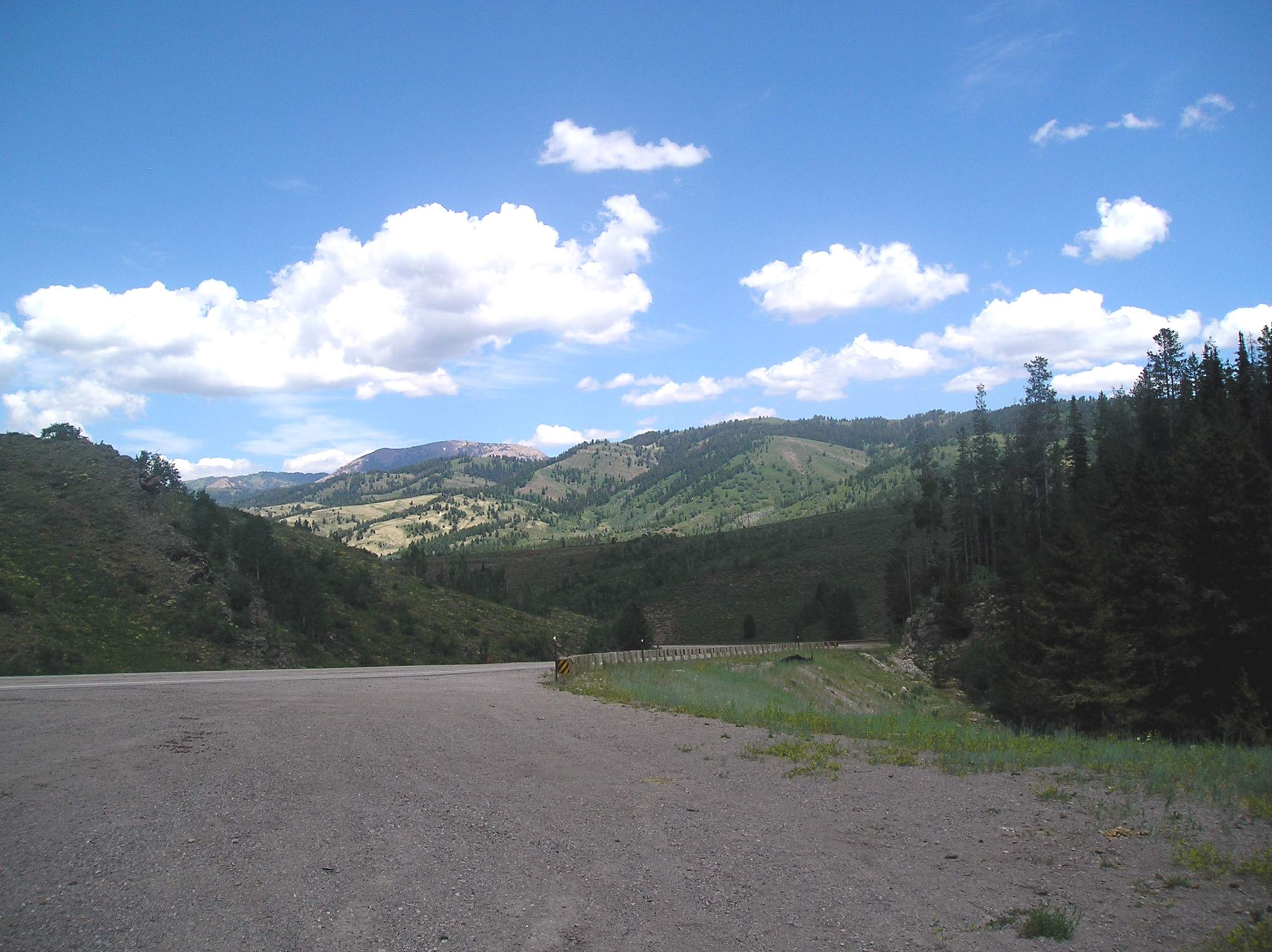 South Part of Salt River Range, Wyoming